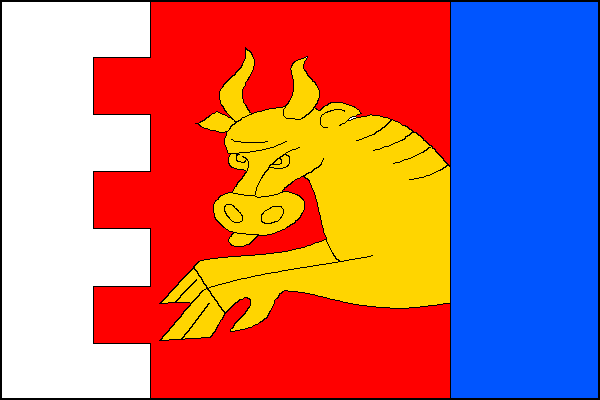 Municipal flag of Dobronín village, Jihlava District, Czech Republic.